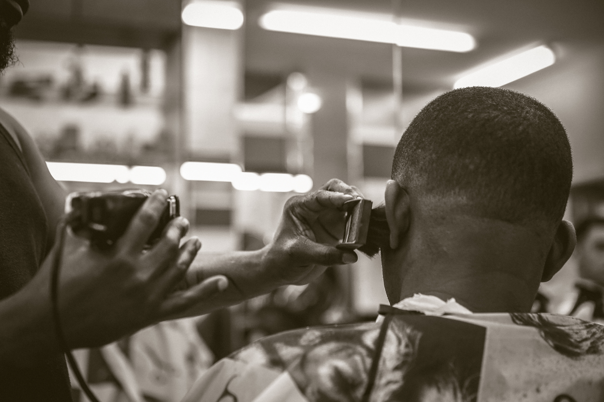 Hairdresser Tools: Shoe brush - African Barbershop - Keerom St, Cape Town 2012 (Photo by: Pierre F. Lombard)